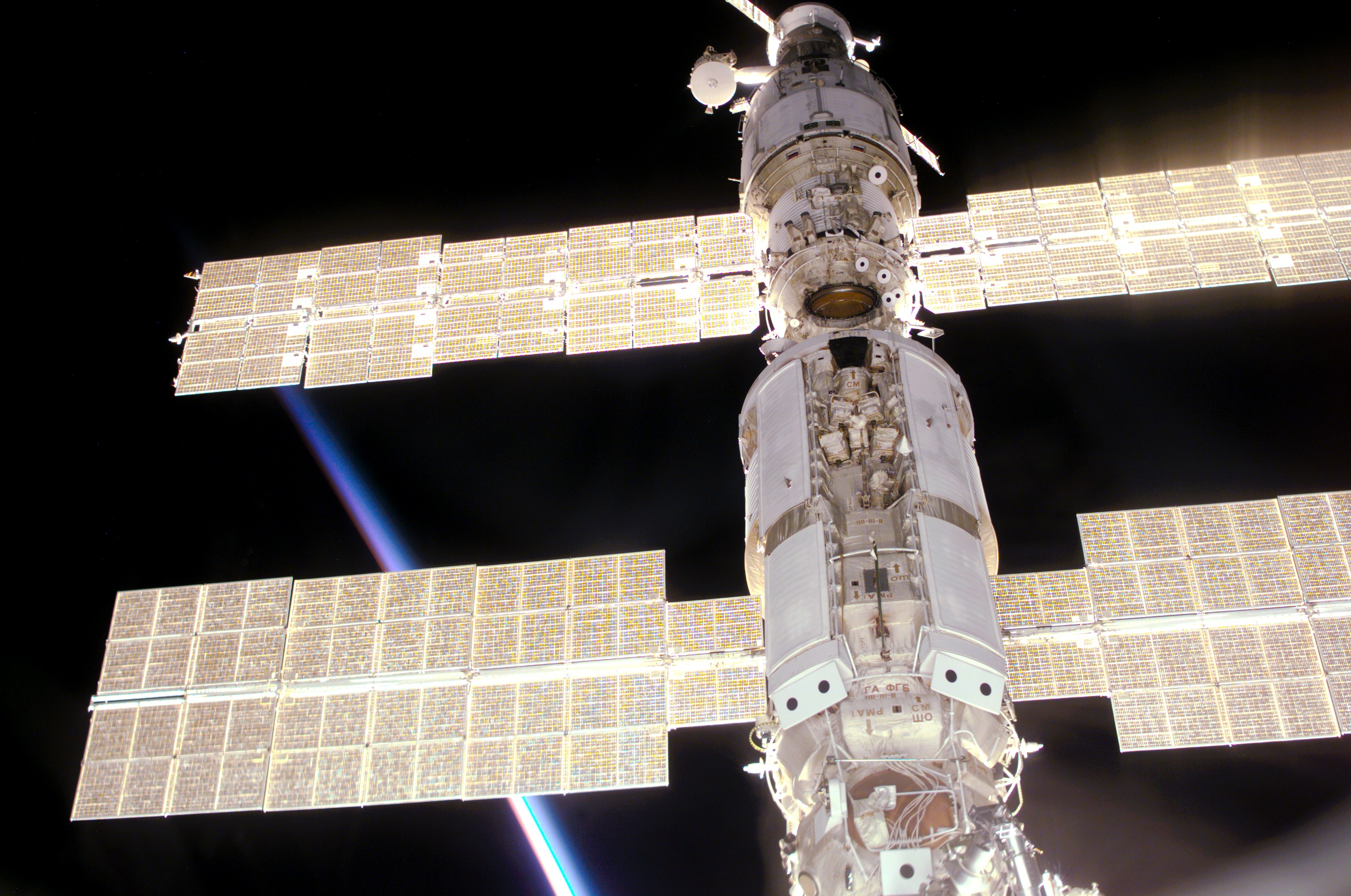 ROS Solar arraysOriginal description:This view of the International Space Station (ISS) was taken while it was docked with the Space Shuttle Atlantis and shows parts of all but one of the current components. From the top are the Progress supply vehicle, the Zvezda service module, and the Zarya functional cargo block (FGB). The Unity, now linked to the docking system of the Atlantis in the cargo bay, is out of view at bottom. A multicolored layer signals a sunset, in accordance with the stations normal direction of travel and normal orientation, this is also confirmed by the surrounding sequence of images.